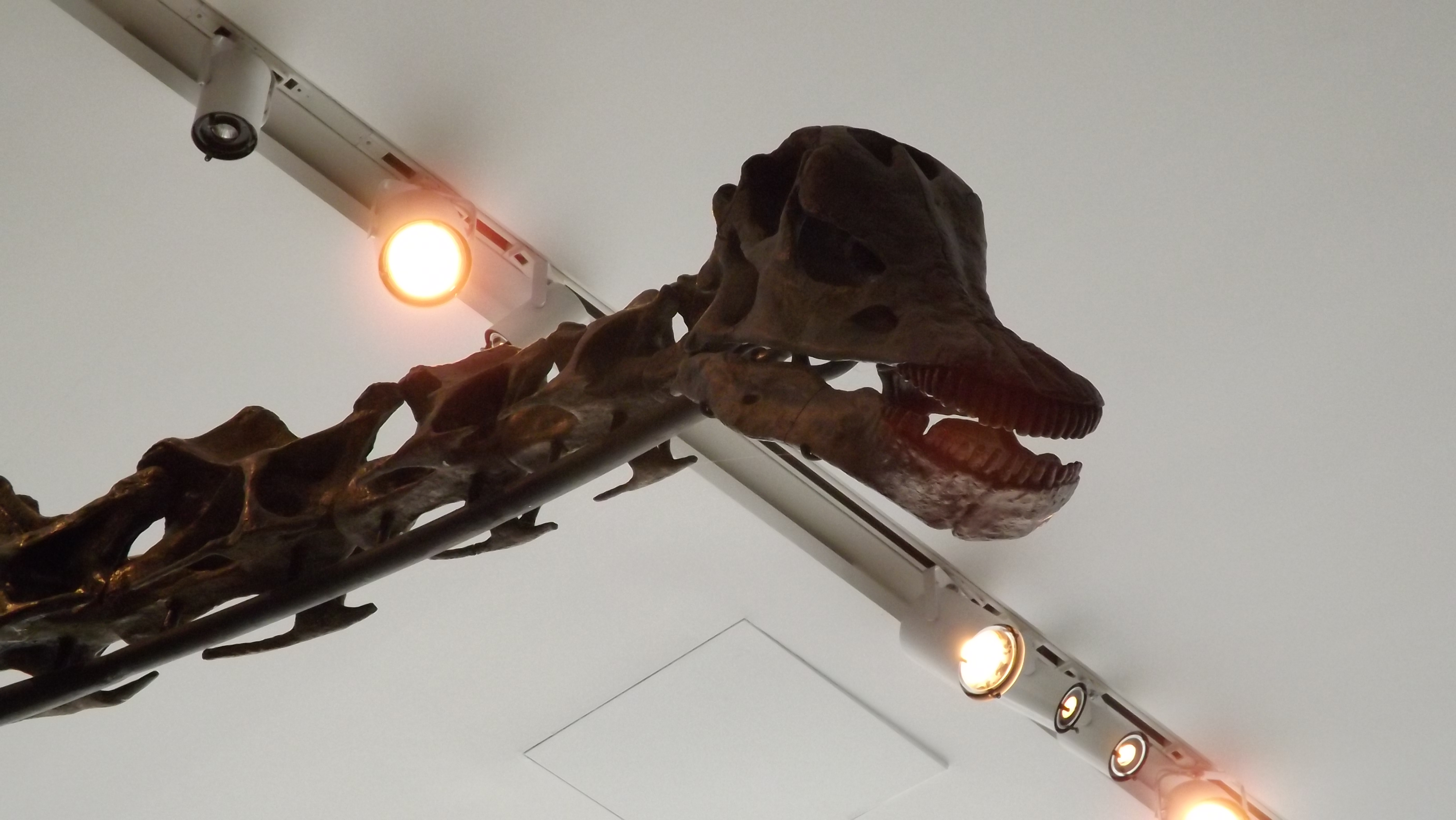 Barosaurus in gallery